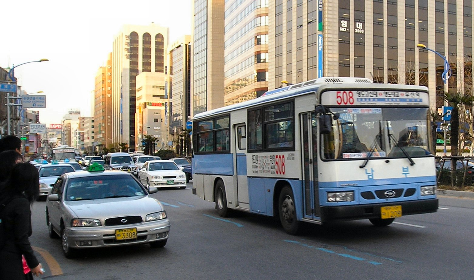 The route 508 in Busan, Korea.